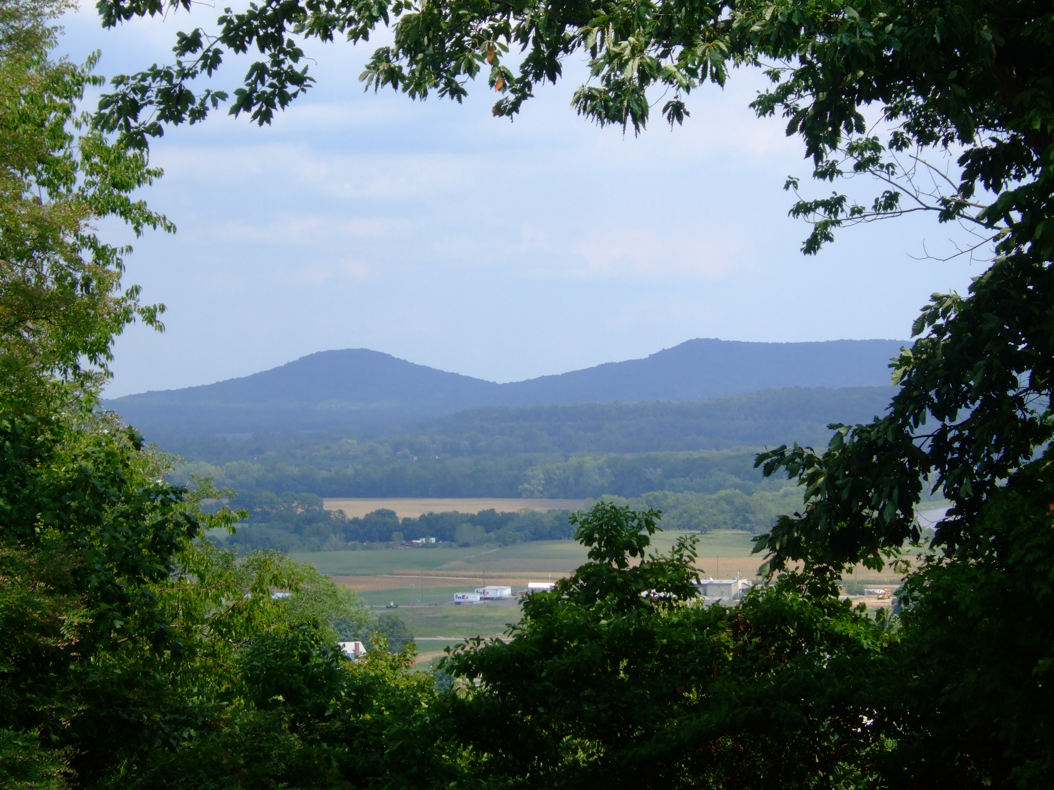 Chillicothe, Ohio, USA. The view of the hills shown on the Great Seal of the State of Ohio.